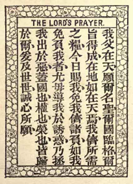 From: Guinness, Lucy; In The Far East: Letters From Geraldine Guinness; Morgan & Scott; London 1889